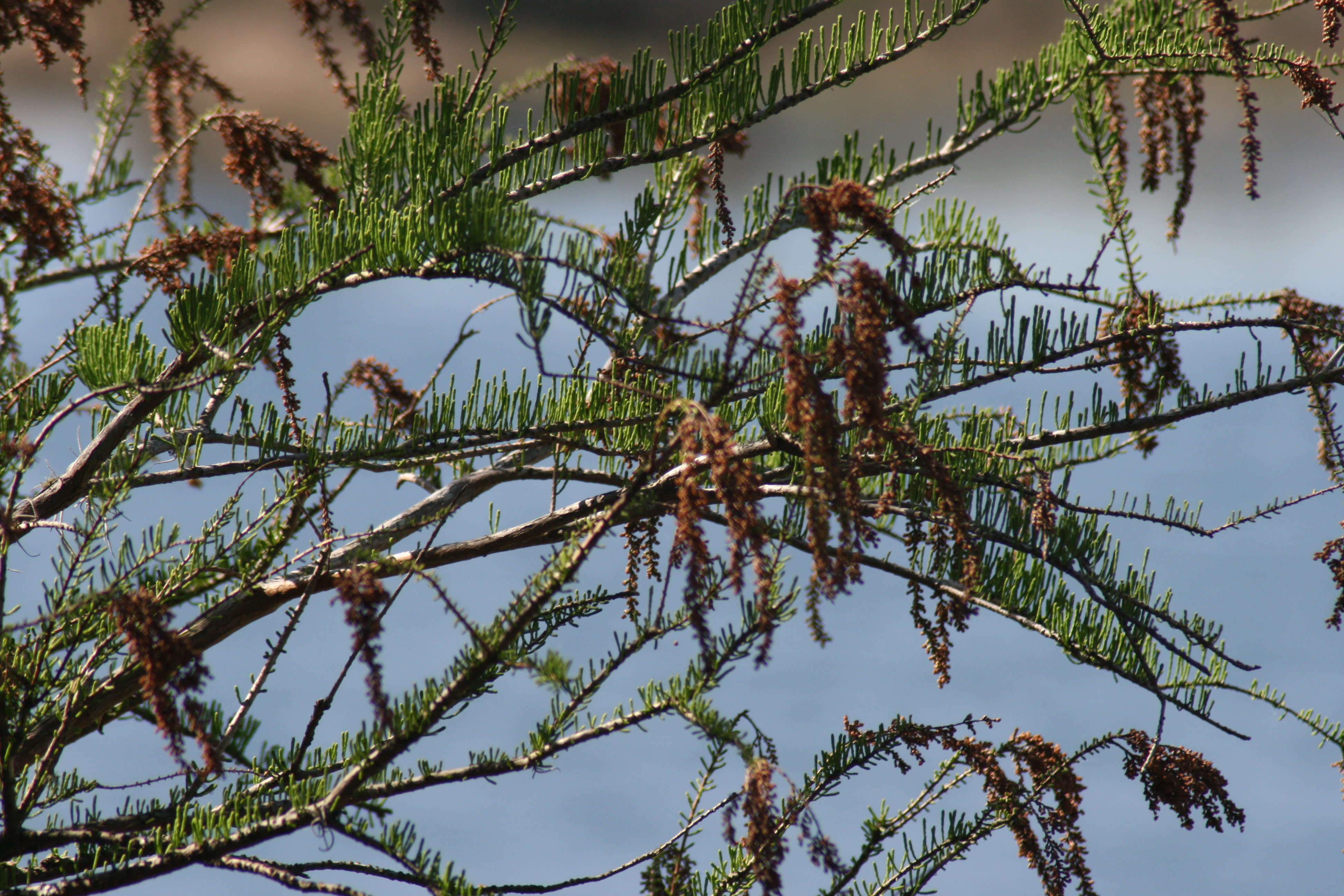 Taxodium ascendens young foliage and pollen cones, Okefenokee Wildlife Reserve, Georgia, USA.